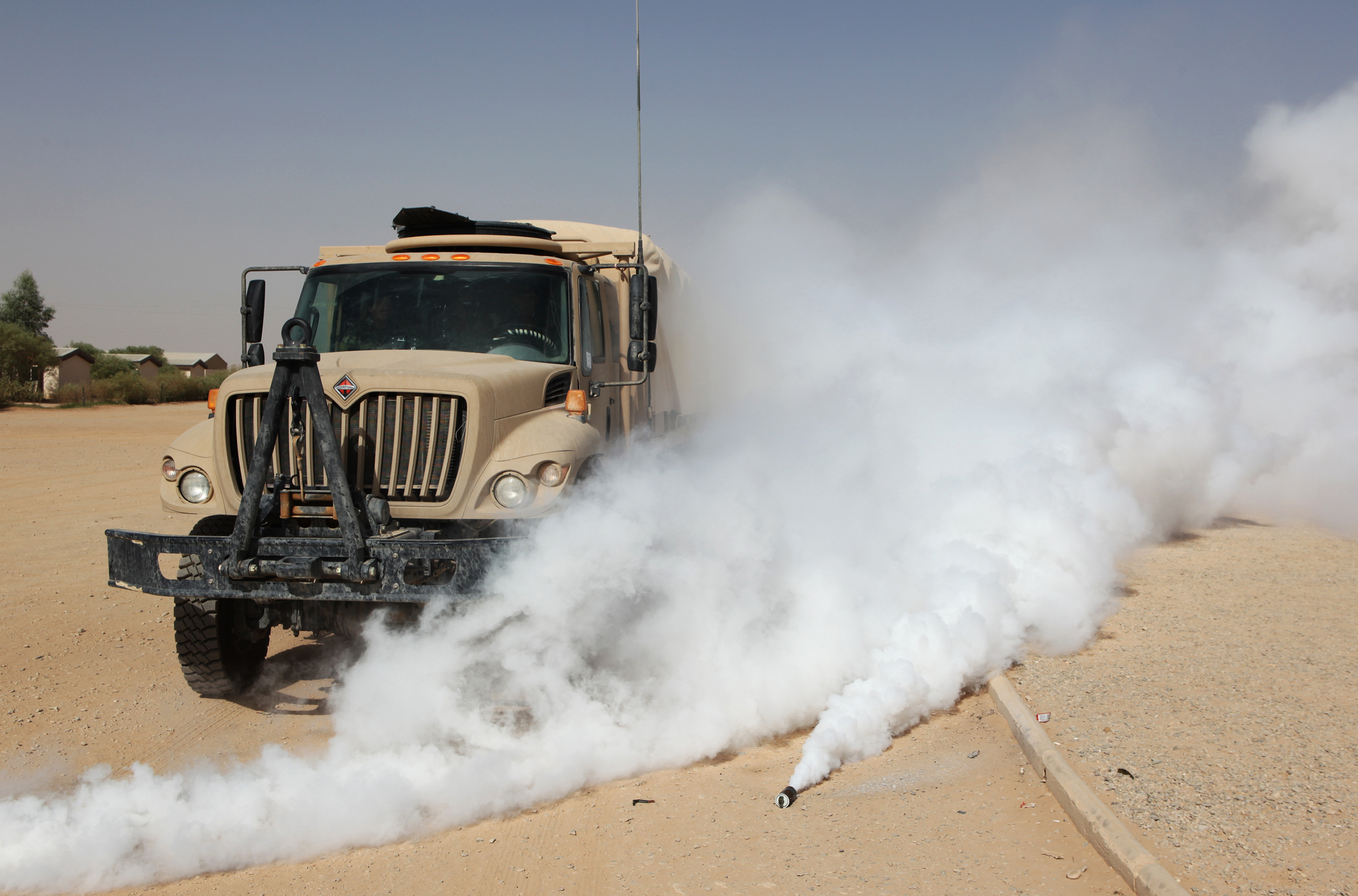 U.S. Marines and U.S. Sailors, with the Embedded Partnering Team (EPT), 2nd Marine Logistics Group (Forward) (2nd MLG (FWD)), use smoke and training grenades to simulate an improvised explosive device blast during a mass casualty training exercise at Camp Shorabak, Afghanistan, Sept. 10, 2011. Marines and Sailors with EPT, 2nd MLG (FWD) are working with Afghan soldiers assigned to the 215th Corps Logistics Battalion.